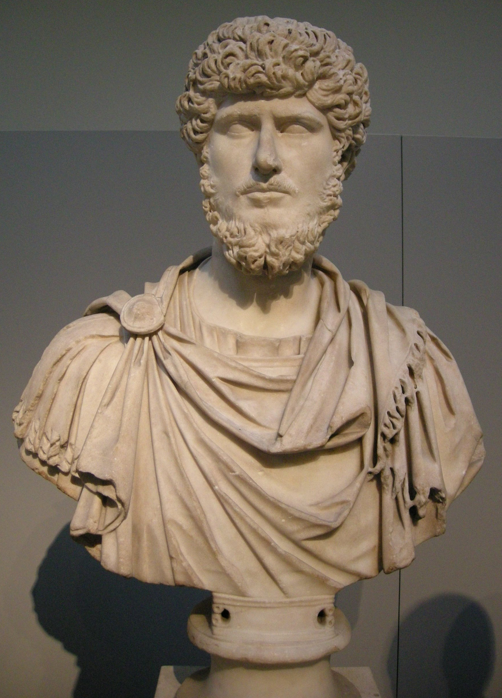 Portrait of Emperor Lucius Verus.